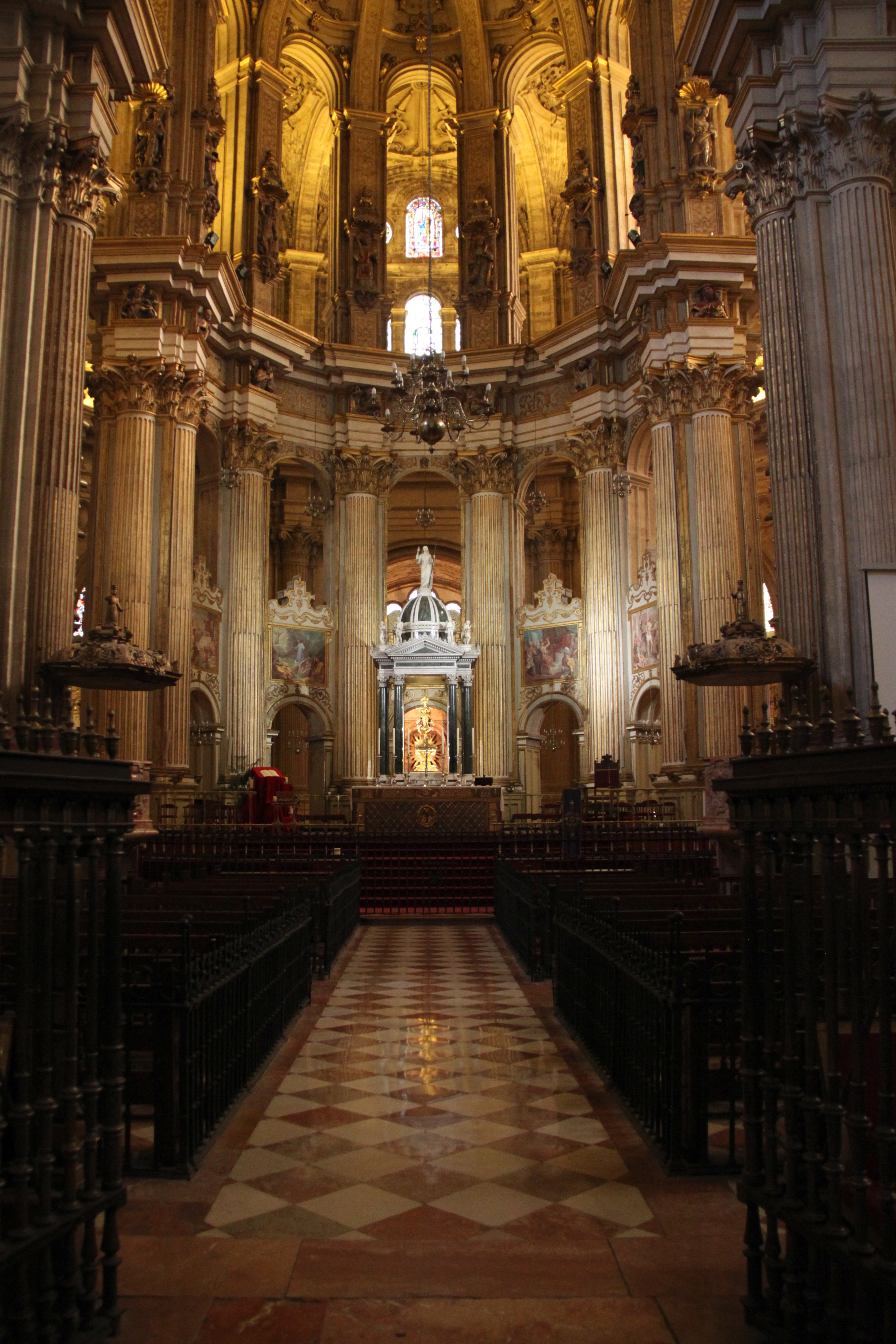 Cathedral of Málaga, Spain.